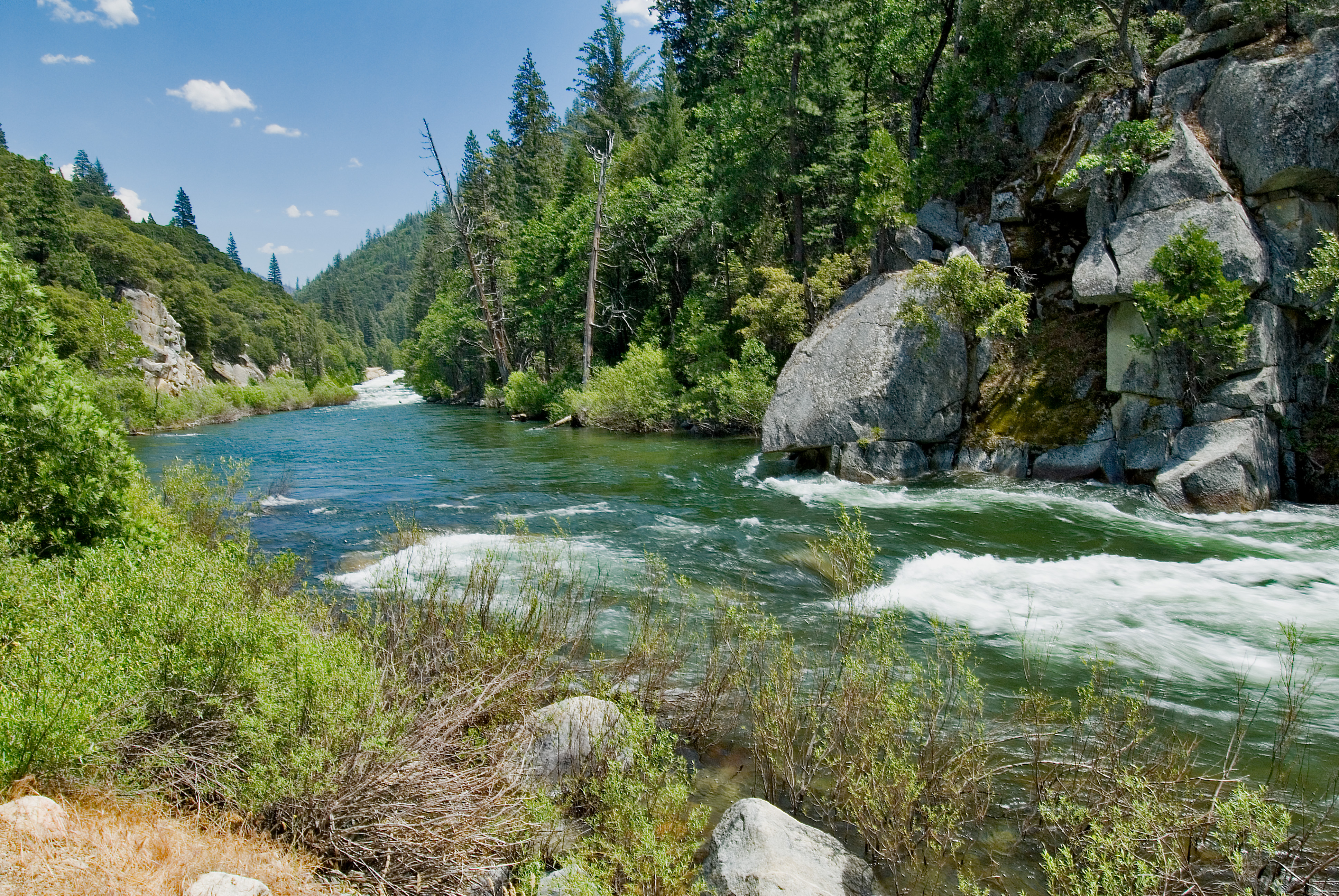 South Fork Kings River, Kings Canyon National Park.